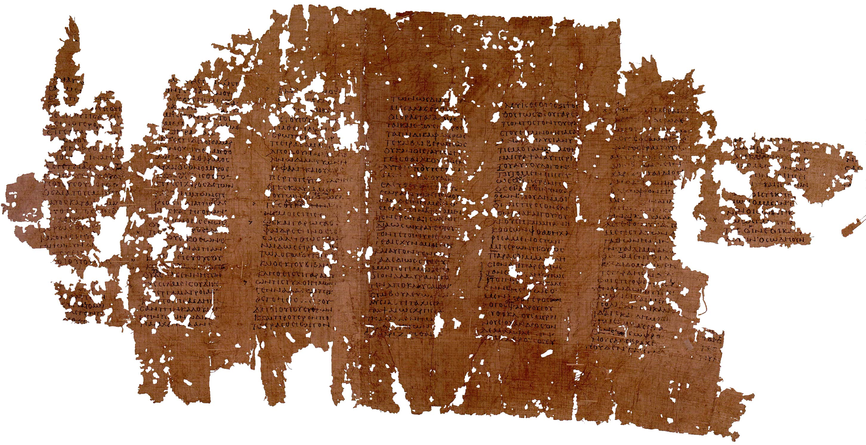 2nd century papyrus of Plato's Phaedrus from Oxyrhynchus, reconstructed from several fragments. Background from original replaced with white. From Oxford University's online Oxyrhynchus exhibit.